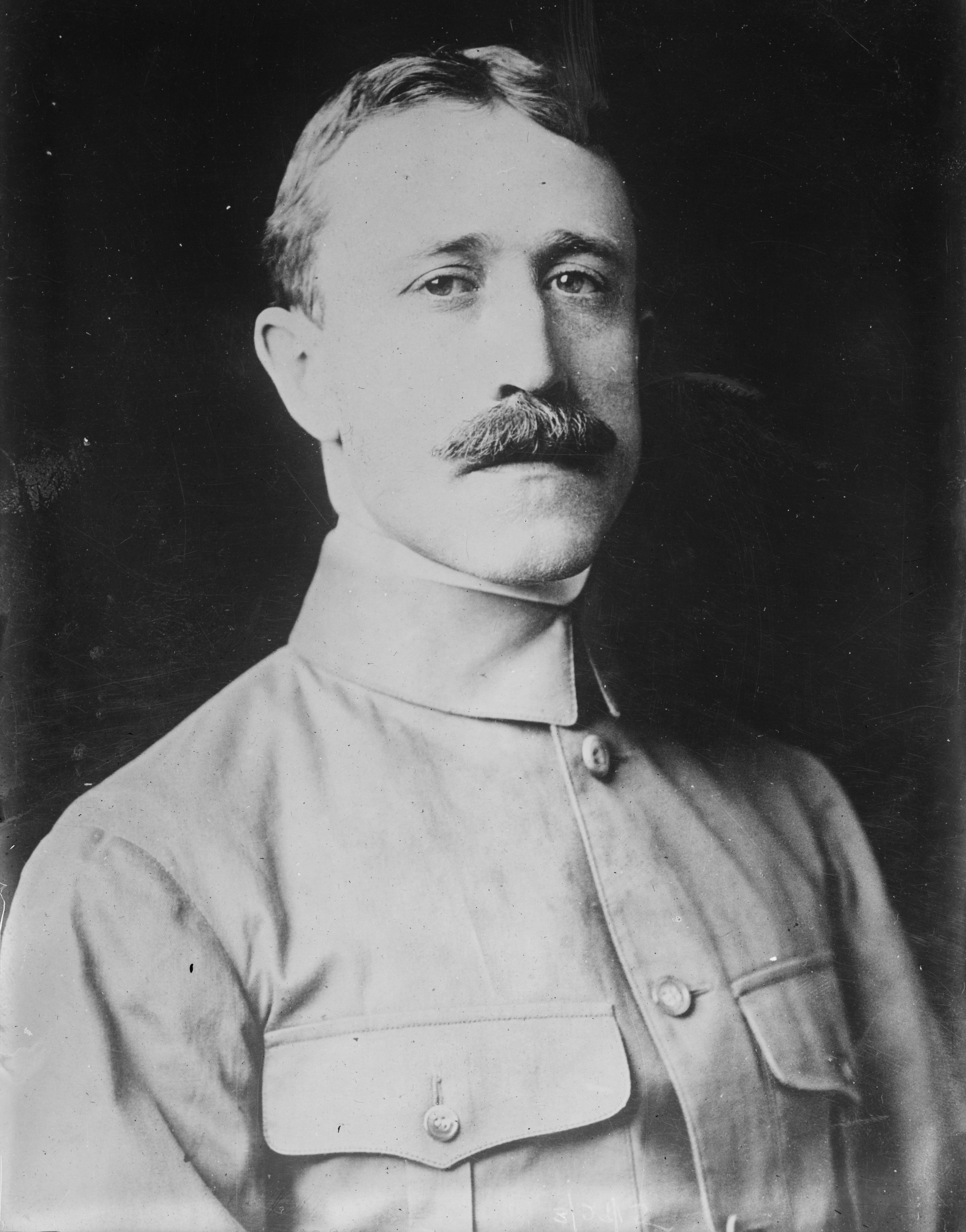 Photograph shows American war correspondent Frederick Palmer (1873-1958). (Source: Flickr Commons project, 2013)